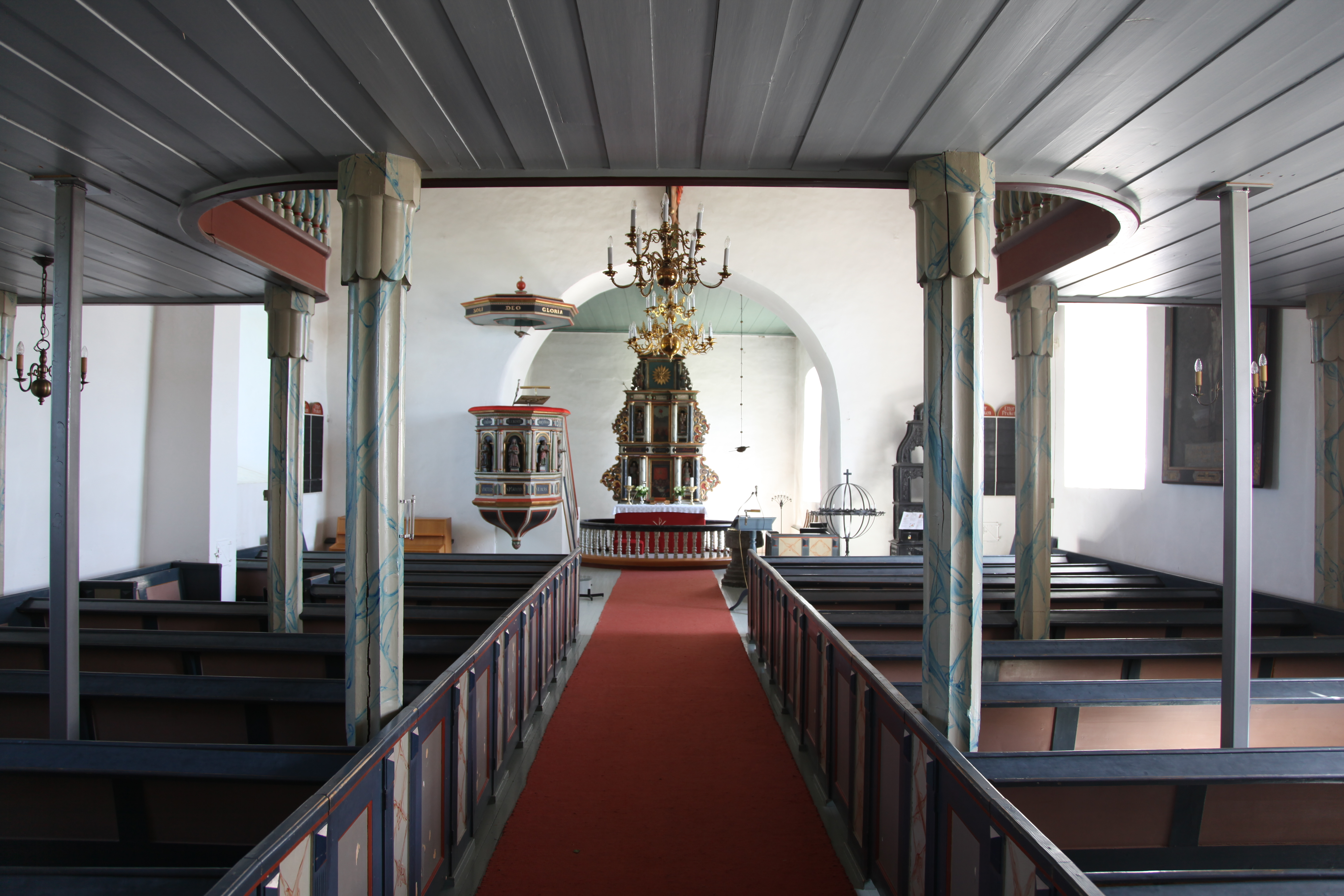 Interior of Nannestad church, Nannestad, Norway